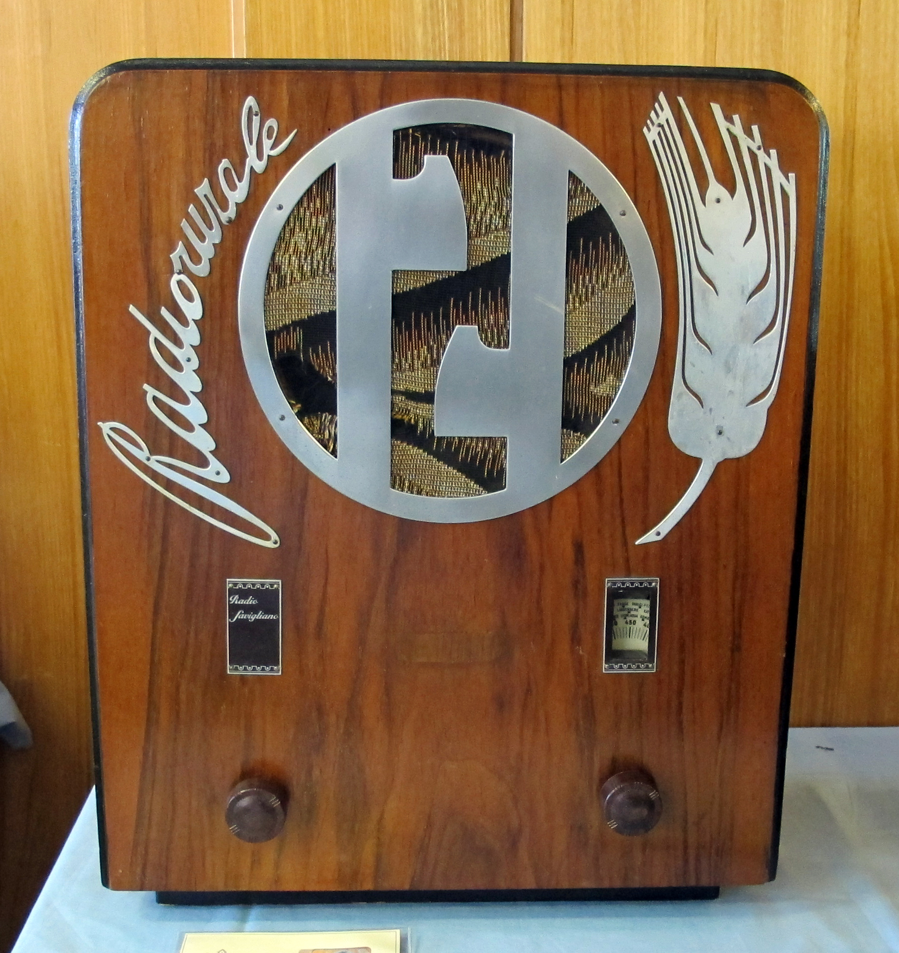 Antique radios amateurs exhibition (Florence 2014)